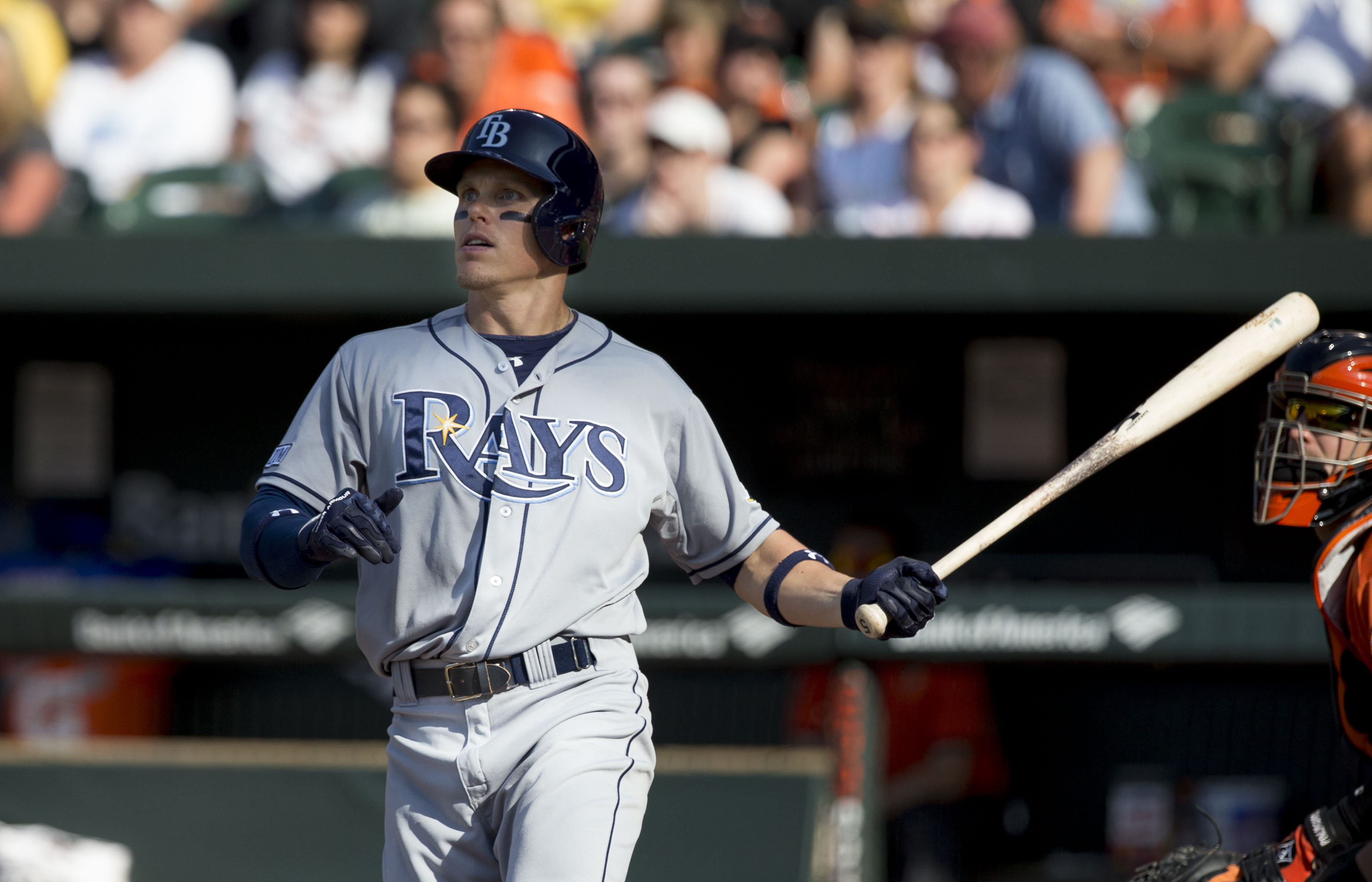 Brandon Guyer of the Tampa Bay Rays swings a bat during a game in 2014.